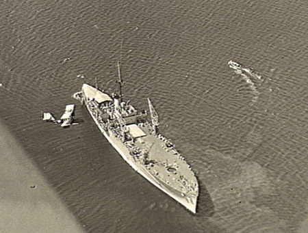 AWM Caption: AN AERIAL VIEW OF SEAPLANE CARRIER HMAS ALBATROSS WITH ONE OF HER SEAGULL AMPHIBIAN AIRCRAFT FROM 101 FLEET COOPERATION FLIGHT, RAAF, OVERHEAD. NOTE THE HATCH COVERING THE HANGAR ENTRANCE JUST FORWARD OF THE SUPERSTRUCTURE AND THE MOUNTING FOR THE UNFITTED CATAPULT TOWARDS THE BOWS. DURING HER SERVICE WITH THE ROYAL NAVY, AS HMS ALBATROSS, THE SHIP RECEIVED BATTLE DAMAGE WHICH WAS NOT COMPLETELY REPAIRED BY THE END OF THE WAR. SHE PAID OFF IN 1945-06 AND WAS SOLD OUT OF SERVICE. IN 1947 SHE BECAME THE PRIDE OF TORQUAY AND WAS TO BE A FLOATING CABARET BUT THE PLAN FAILED. IN 1948 THE VESSEL WAS ACQUIRED BY GRAECO-BRITISH INTERESTS, CONVERTED TO A PASSENGER SHIP BEING SUBSEQUENTLY USED AS A MIGRANT SHIP TO AUSTRALIA, UNDER THE NAME HELLENIC PRINCE. DURING 1953 SHE WAS CHARTERED AS A BRITISH TROOP TRANSPORT. FINALLY IN 1953-11, THE SHIP WAS SOLD FOR SCRAPPING IN HONG KONG. (NAVAL HISTORICAL COLLECTION).